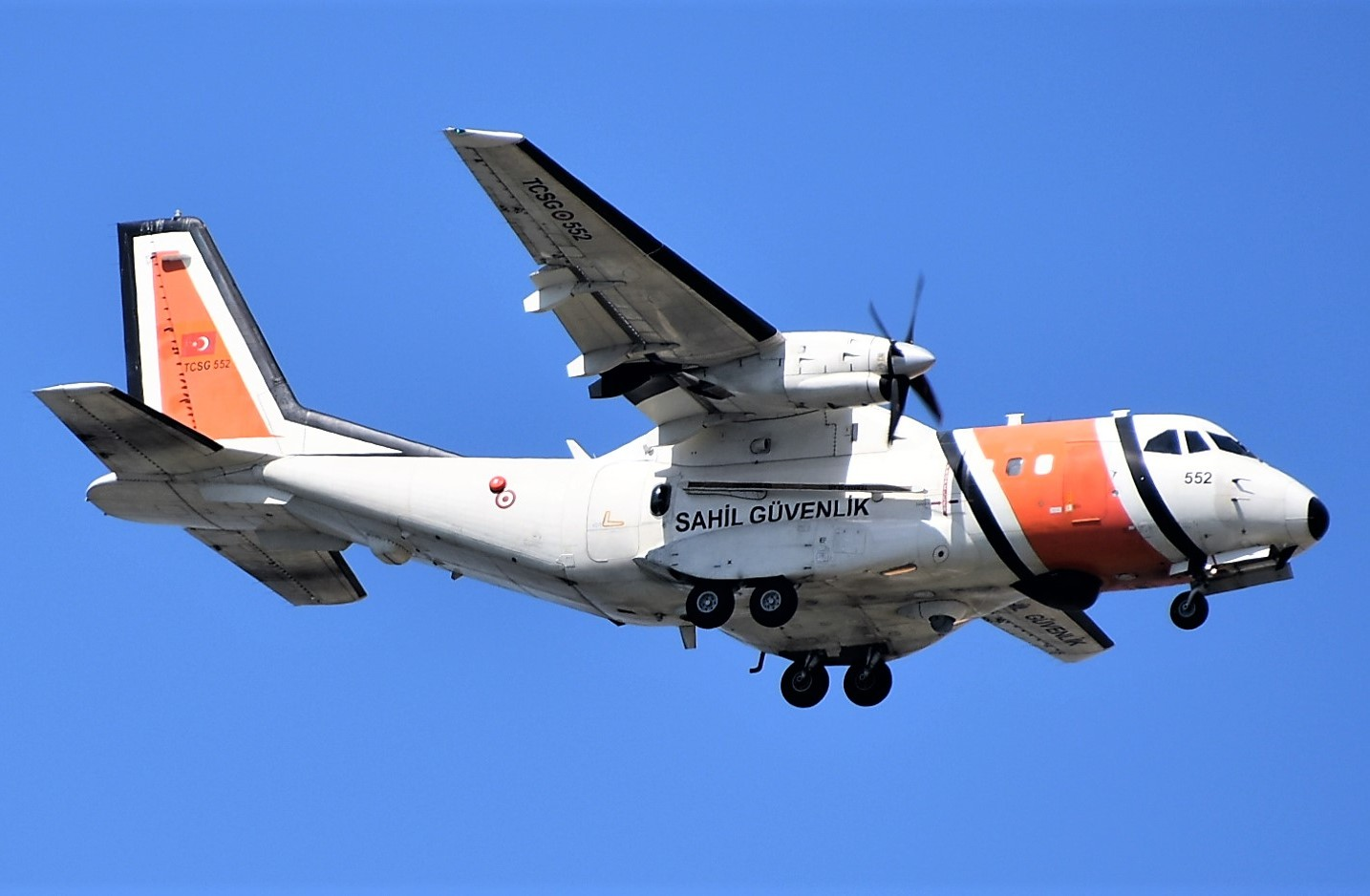 CASA 235/100 of the Turkish Coast Guard on approach to rwy.36L at Antalya-AYT, Turkey, 08/06/18.